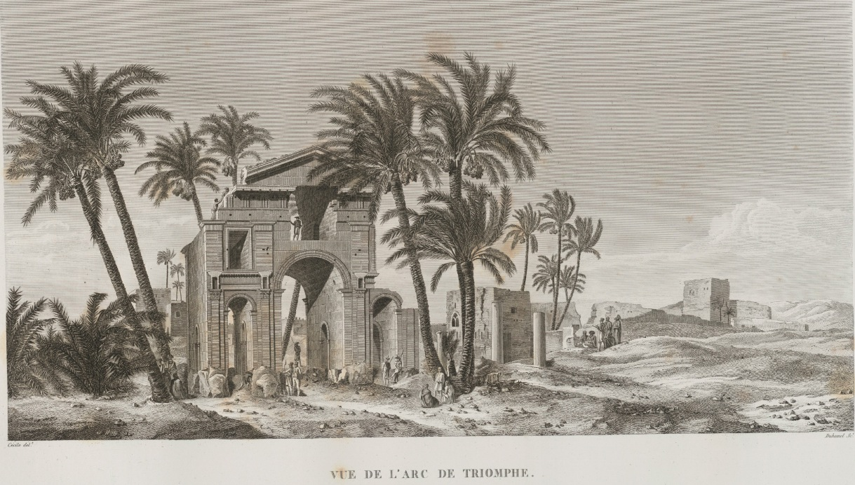 Antinoöpolis. View from the arch of triumph.